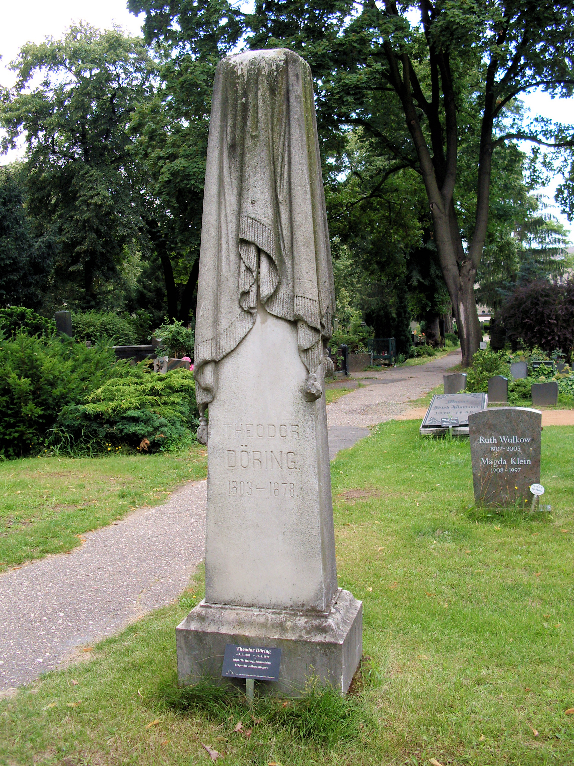 Grave of Theodor Döring in Berlin-Kreuzberg